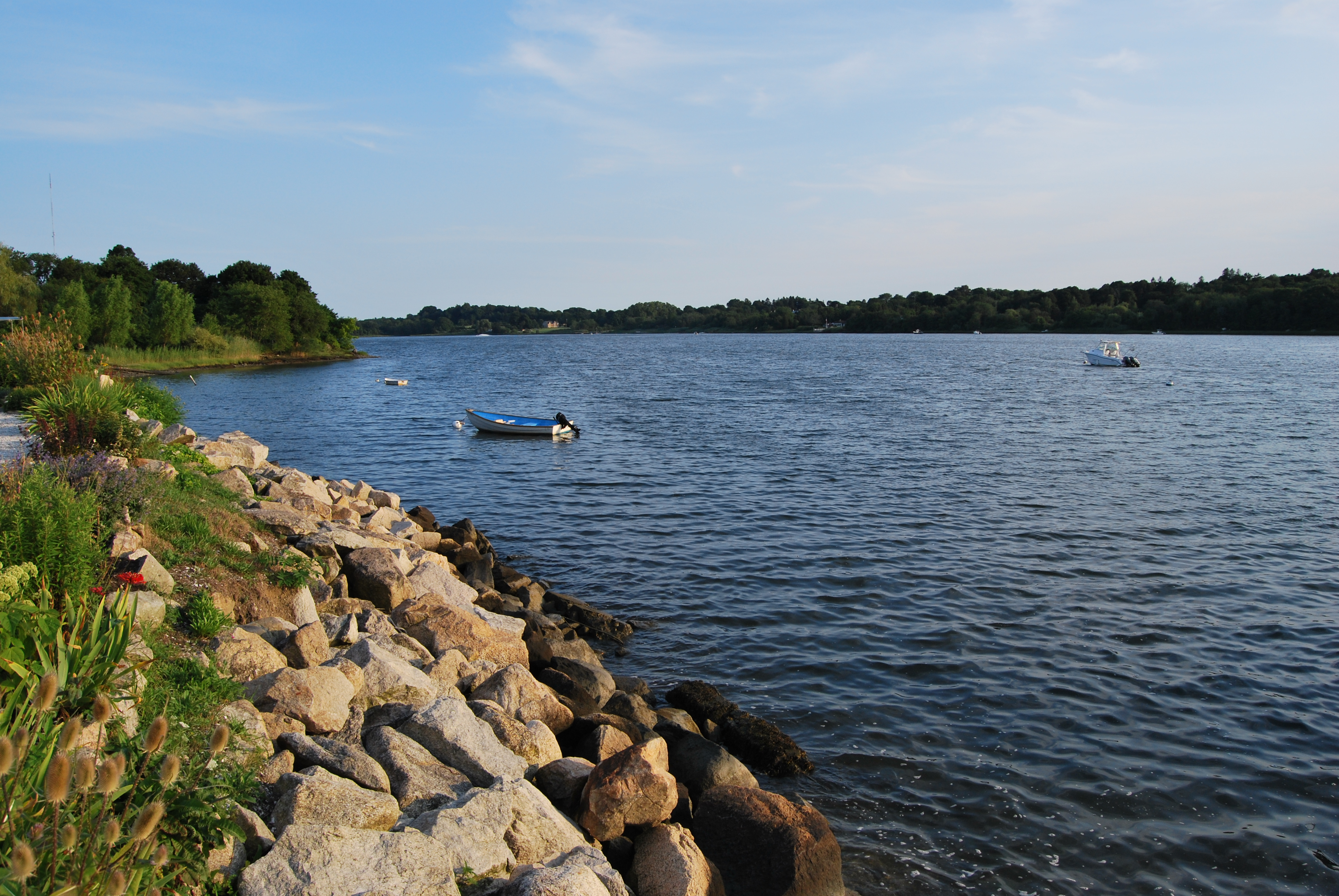 Nannaquaket Pond in Tiverton, Rhode Island as seen from the east bank.